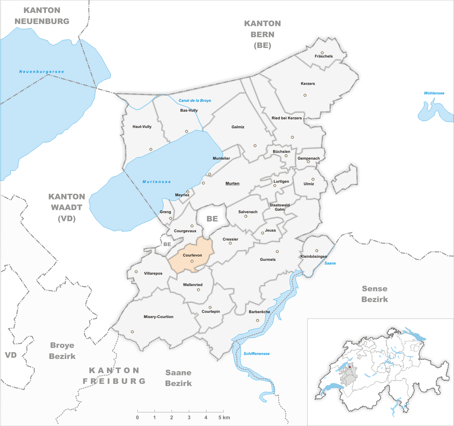 Municipality Courlevon